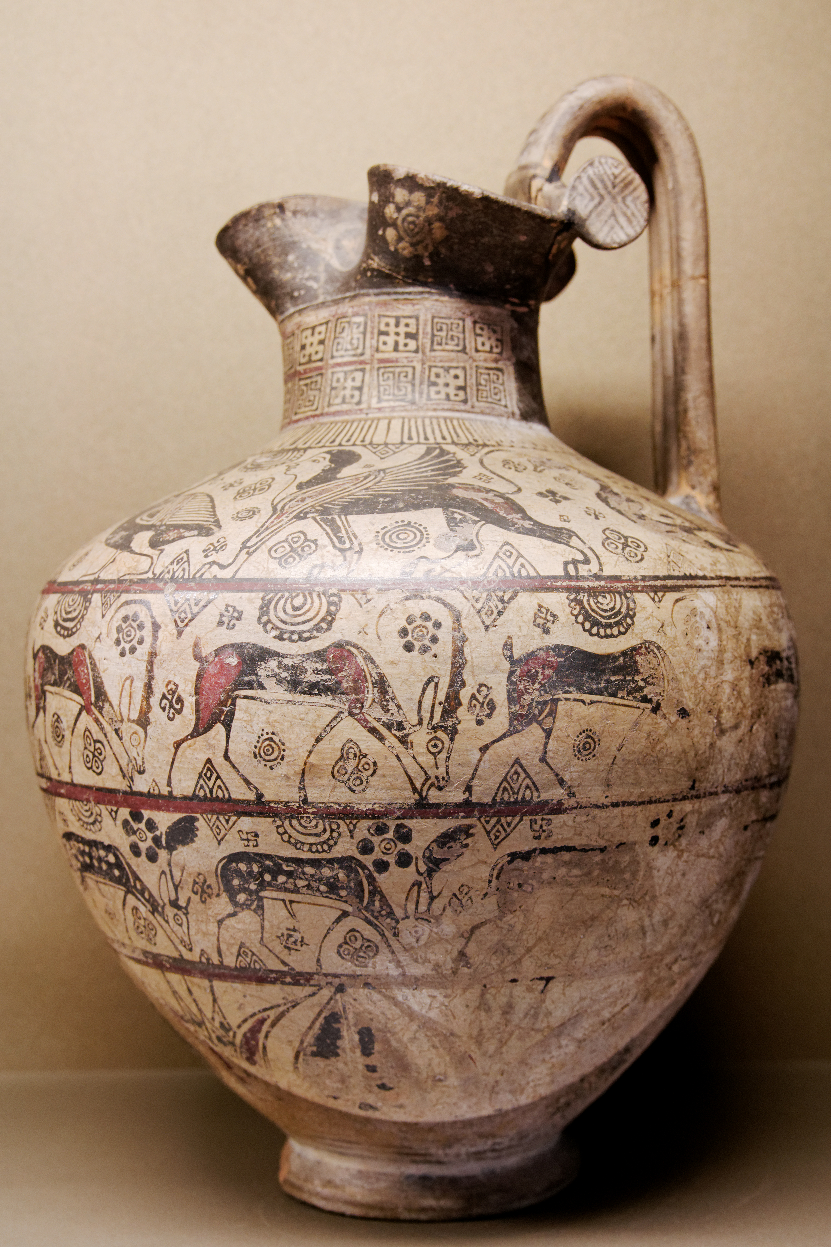 Oinochoe with friezes of grazing wild goats (Wild Goat style).